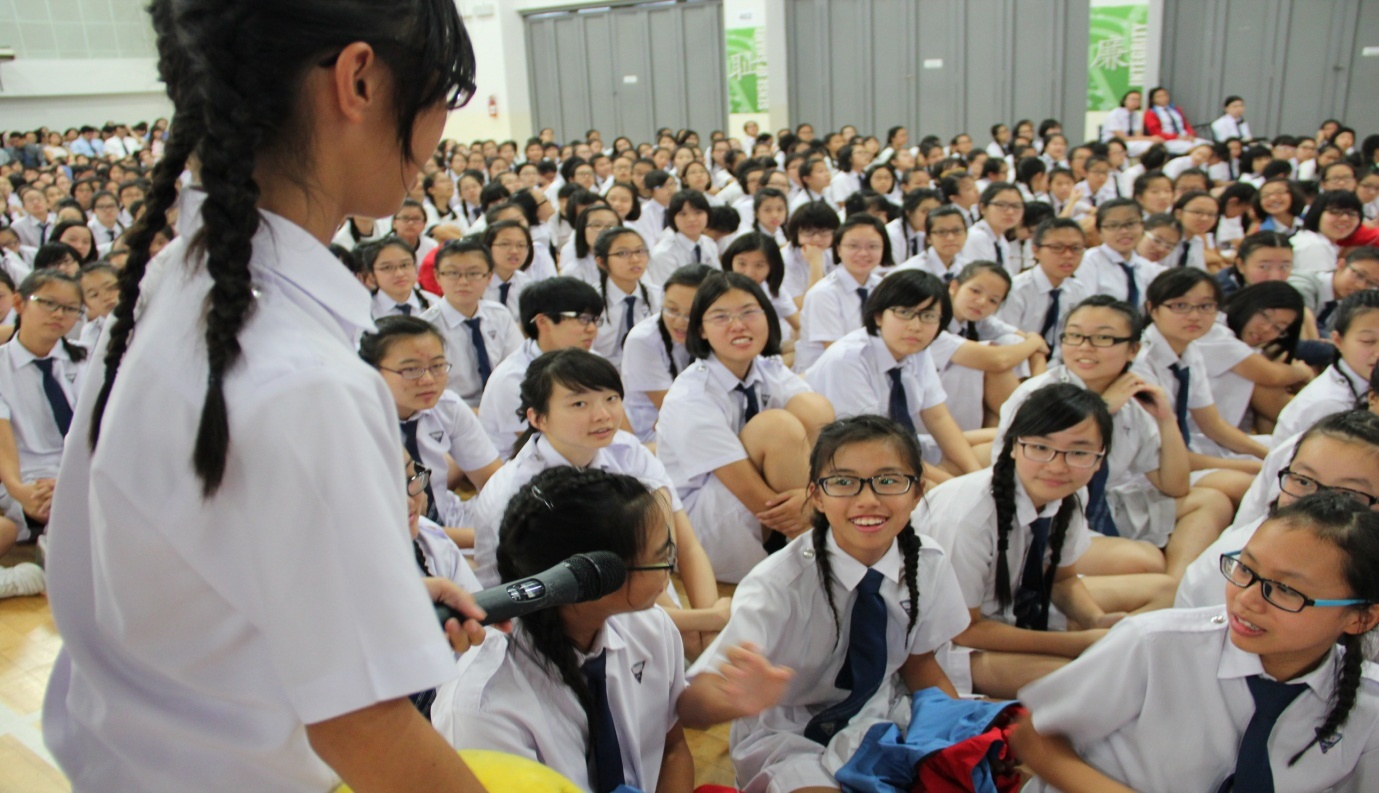 Assembly in Nan Hua High School